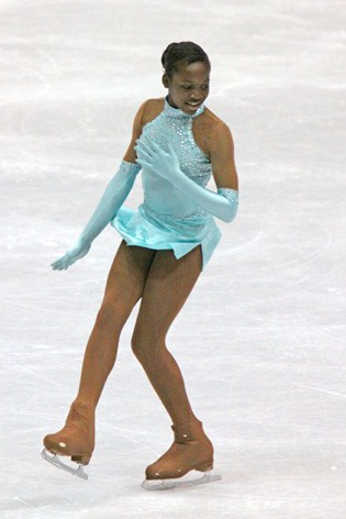 Yretha Silete at the 2009-2010 Junior Grand Prix Lake Placid